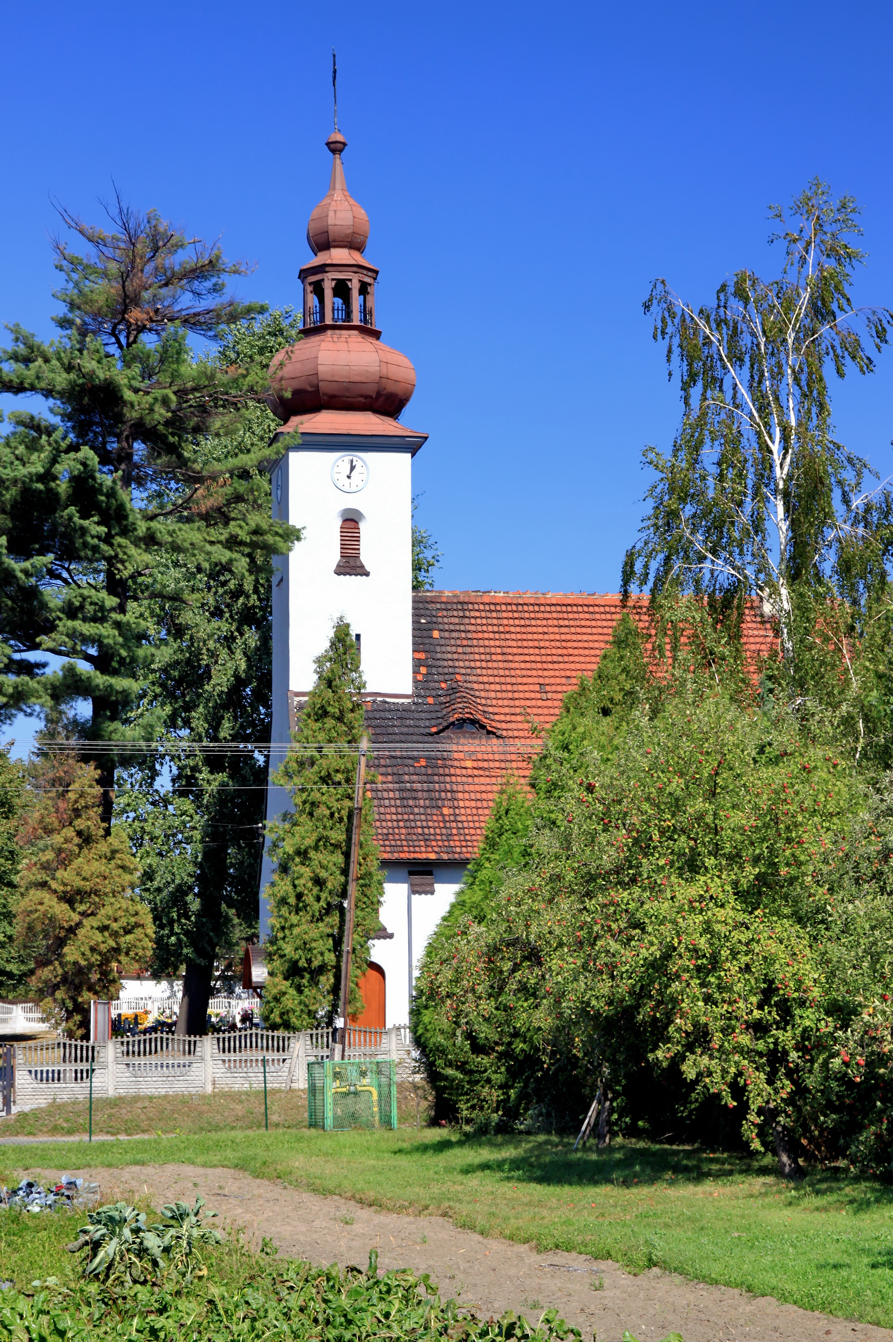 Lutheran church. Gołkowice, Silesian Voivodeship, Poland. 02.2015.